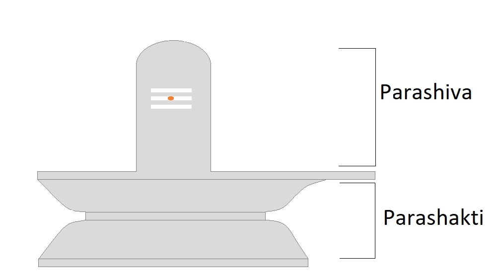 Shiva Lingam interpretation